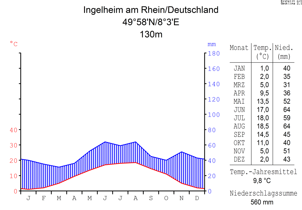 climate chart in the format by Walther and Lieth, metric, °Celsisus and millimeters, made with Geoklima 2.1